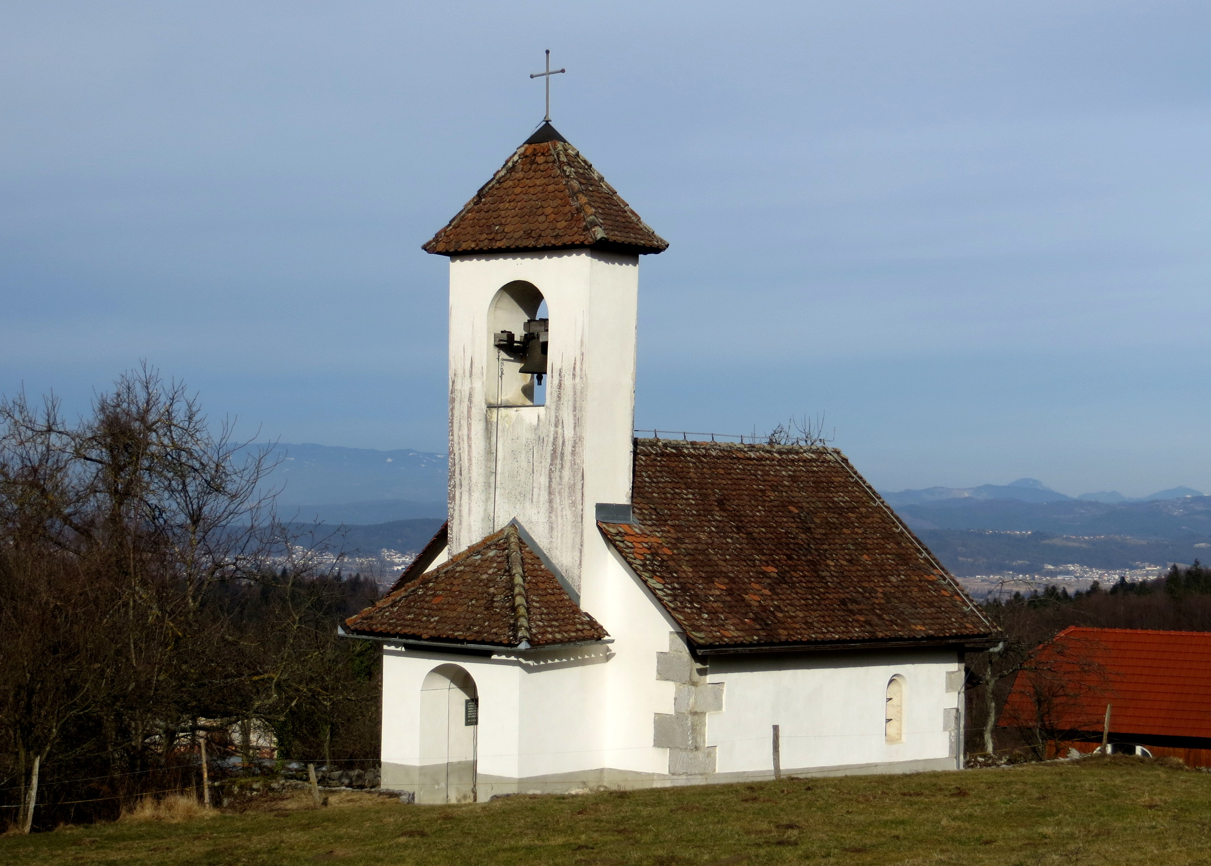 Saint Thomas's Church in Planinca, Municipality of Brezovica, Slovenia